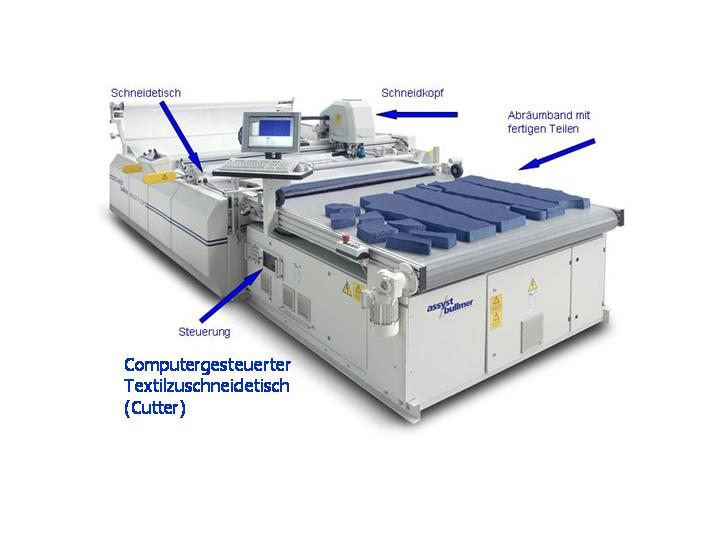 Automatic NC-controlled cutting machine for textile materials